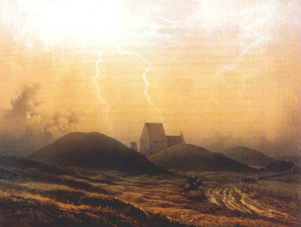 "Uppsalahovet", the Uppsala hov, painted by Carl Johan Billmark.